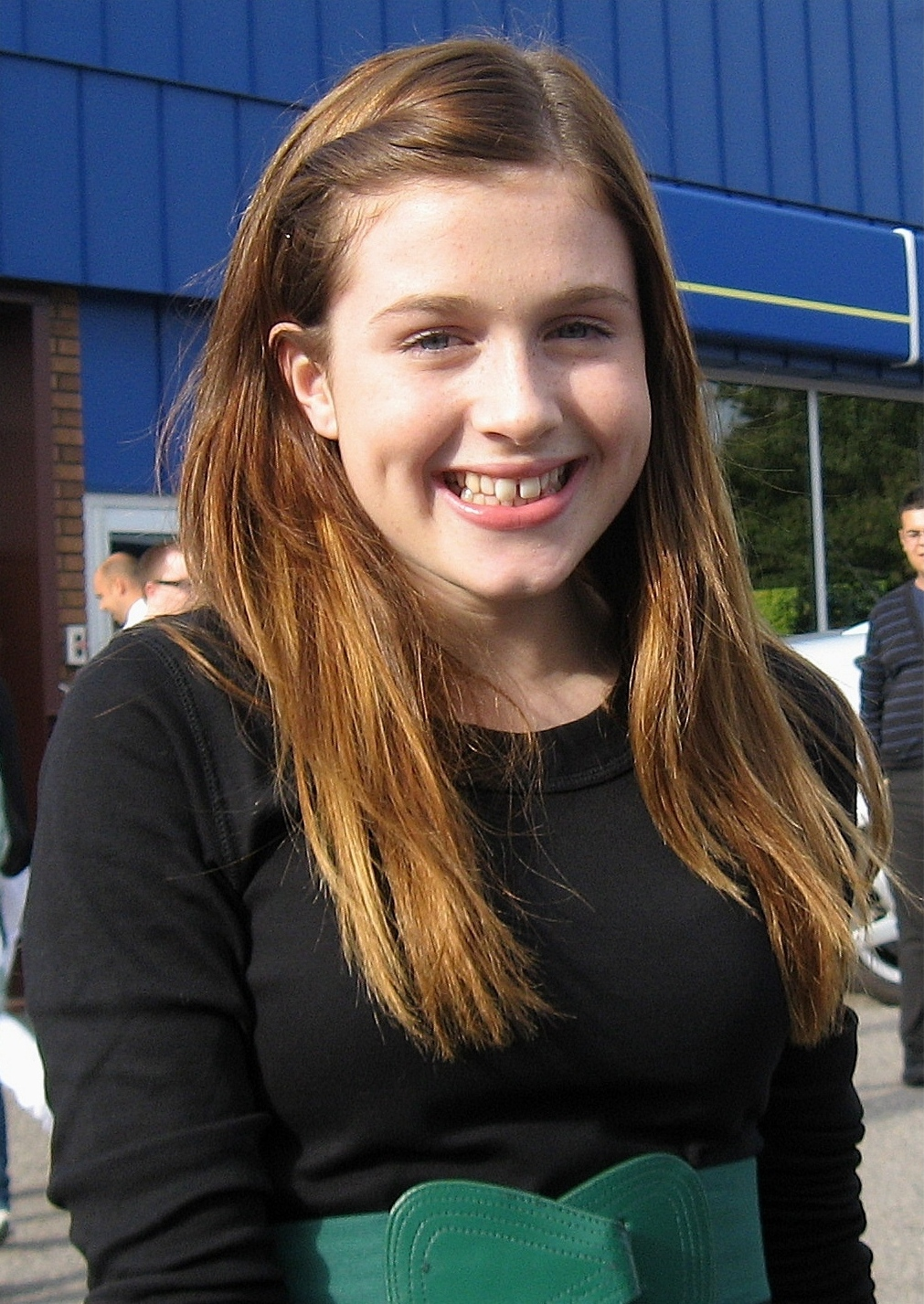 Amy Diamond, after a record-signing in Örebro, Sweden